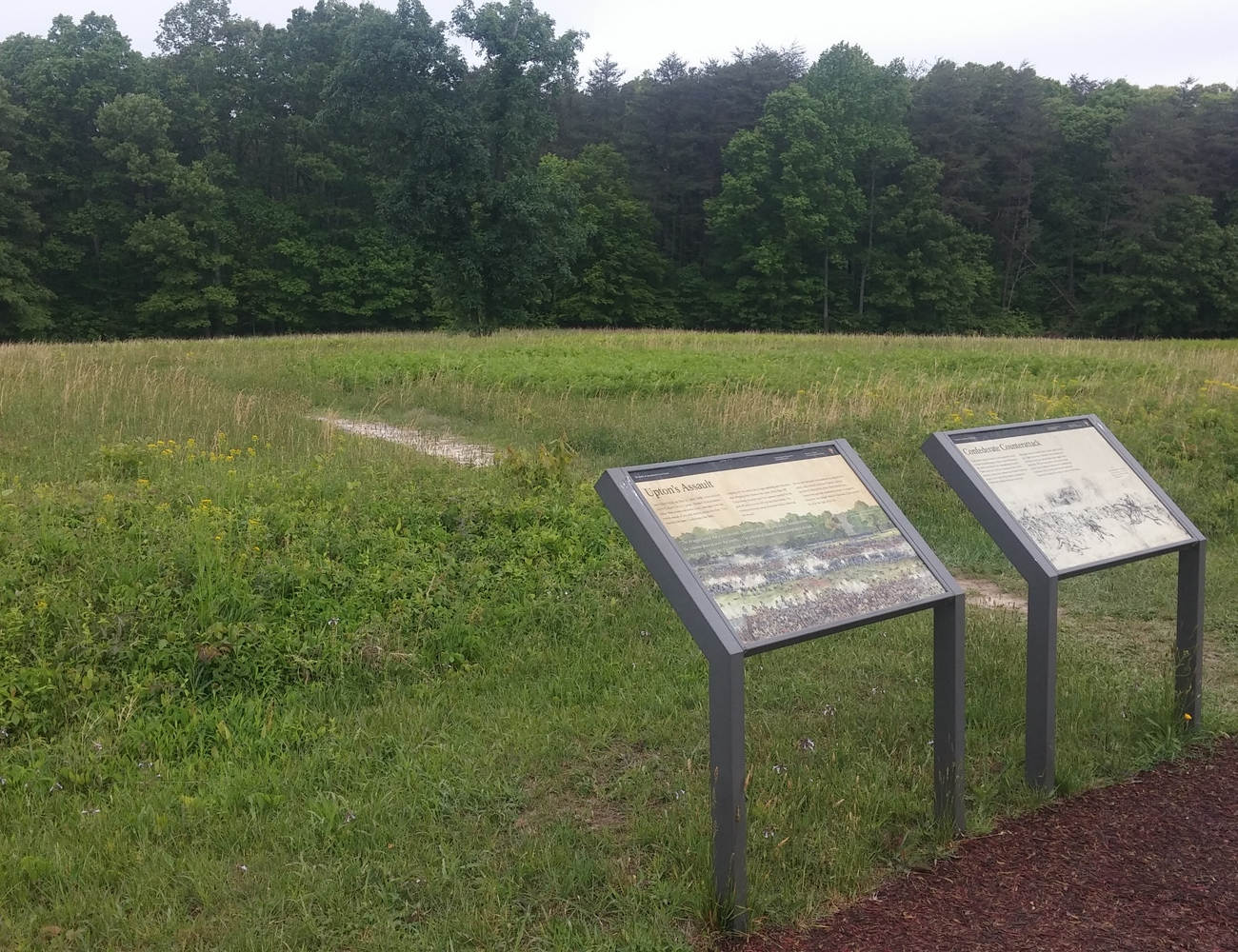 Upton's attack site and markers.